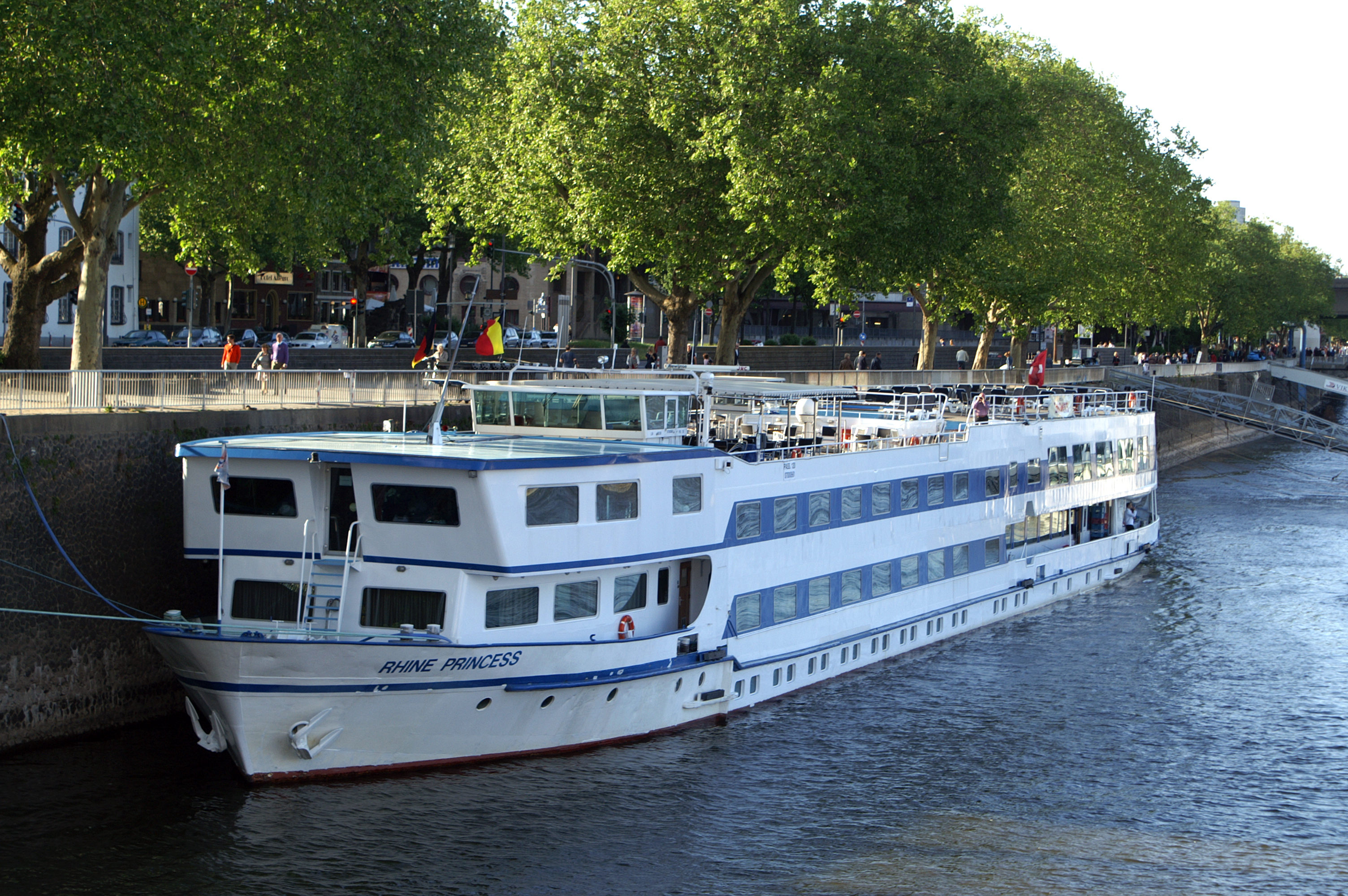 River cruise ship Rhine Princess in Cologne